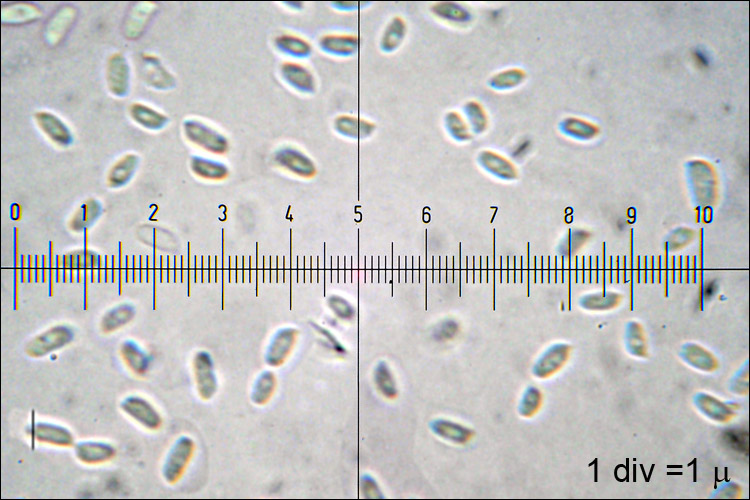 Chondrostereum purpureum (Pers.) Pouzar Image location: Bovec basin, East Julian Alps, Posočje, Slovenia Habitat: Mixed forest with dominant Betula pendula and Picea abies, flat ground, cretaceous clastic rock (flysh), in shade, partly protected from direct rain by tree canopies, average precipitations ~3.000 mm/year, average temperature 8-10 deg, elevation 560 m (1.840 feet), alpine phytogeographical region. Substratum: a partly rotten trunk of a cut down Betula pendula trunk. Place: Bovec basin, foothills of Mt. Svinjak 1.965 m (6.447 feet), north of village Kal-Koritnica, East Julian Alps, Posočje, Slovenia EC Nikon D700 / Nikkor Micro 105mm/f2.8 Recognized by sight Used references: Personal communication Mr. Bojan Rot. M.Bon, Pareys Buch der Pilze, Kosmos (2005), p 310. R.Lueder, Grundkurs Pilzbestimmung, Quelle & Mayer (2008), p 337. Based on microscopic features: Spore dimensions: 6.8 (SD=0.6) x 3.4 (SD=0.4) micr, N=25. For more information about this, see the observation page at Mushroom Observer.